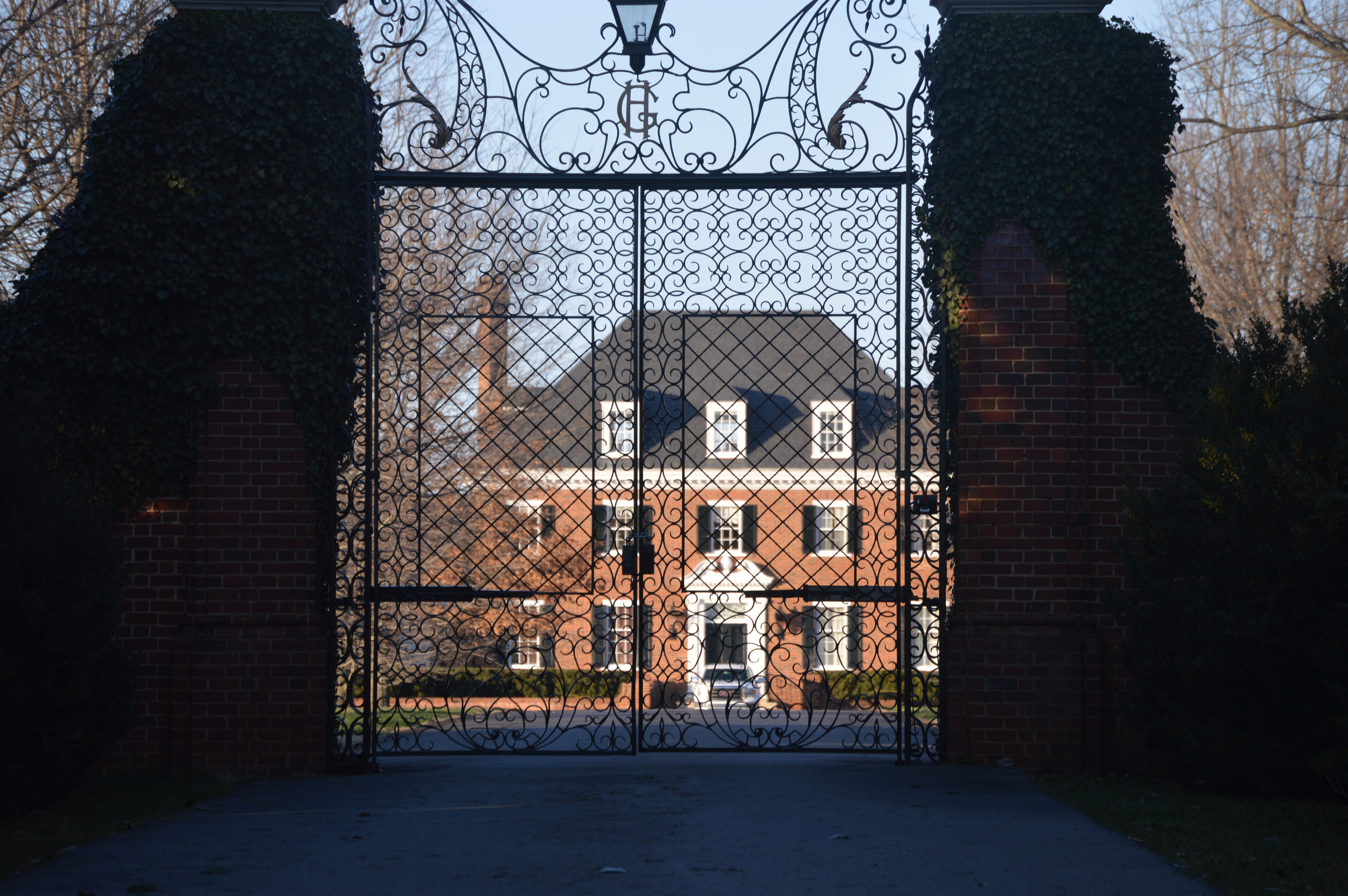 Front of Gallison Hall, located at the end of Farmington Drive northwest of Charlottesville in Albemarle County, Virginia, United States. Built in 1933, it is listed on the National Register of Historic Places.